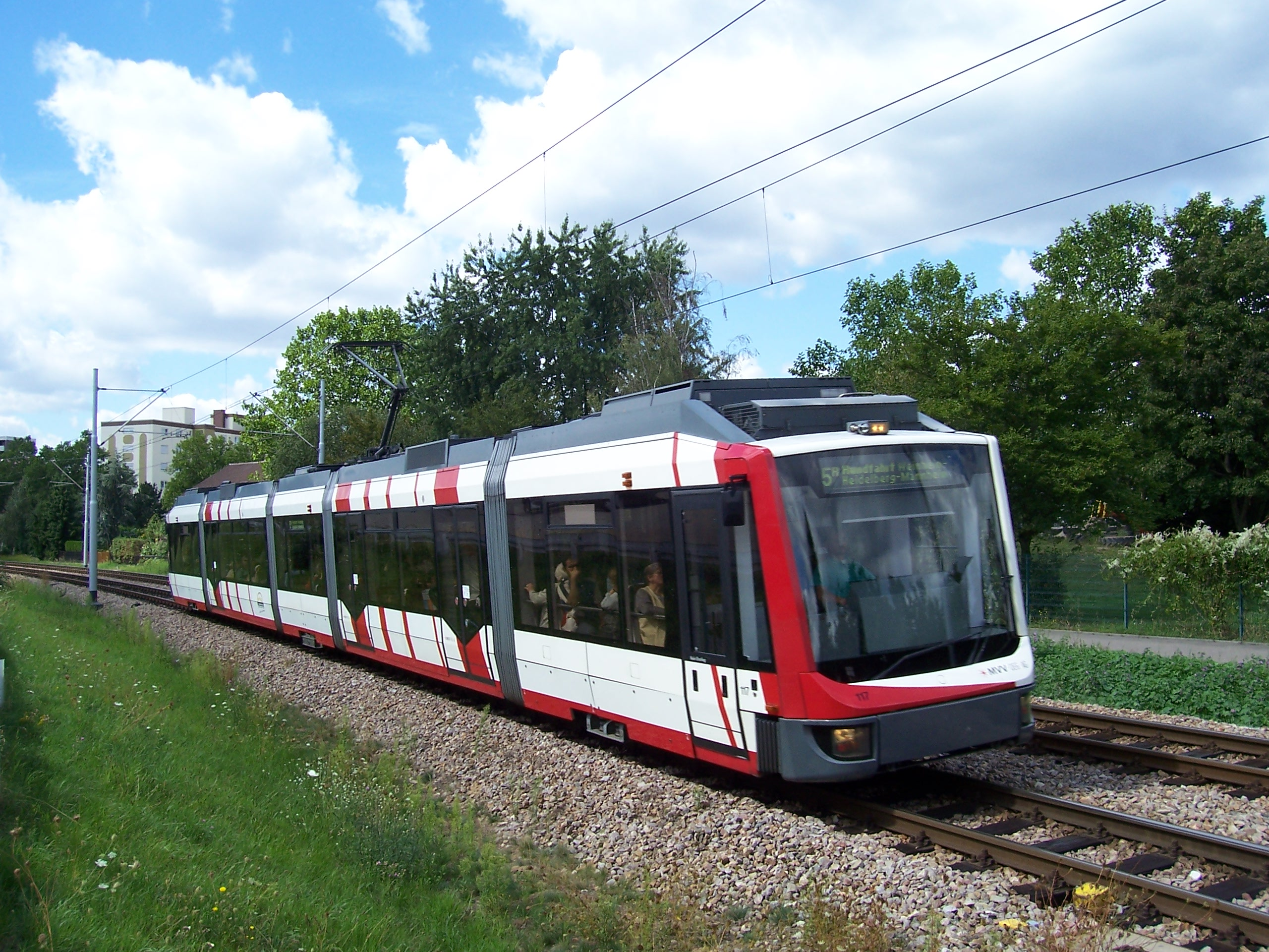 Variobahn 117 owned by MVV OEG AG in Viernheim, Germany